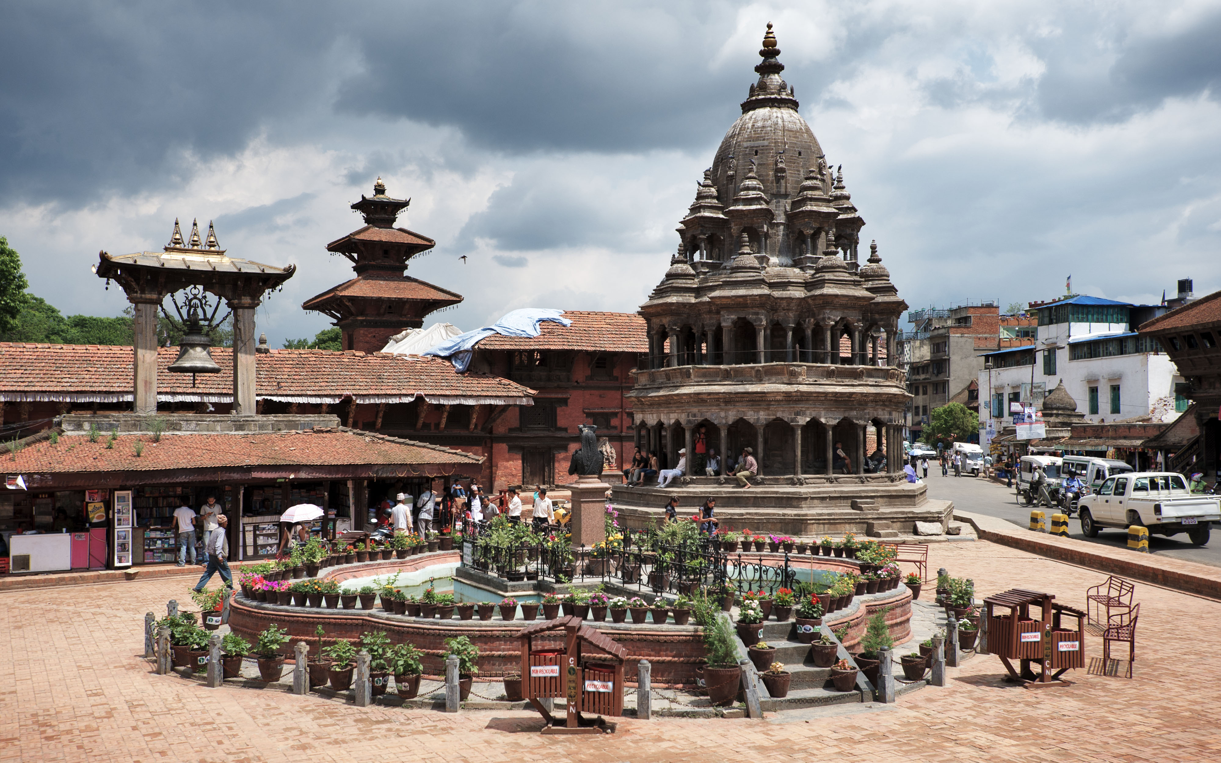 Patan Durbar Square is situated at the centre of Lalitpur city. It is one of the three Durbar Squares in the Kathmandu Valley, all of which are UNESCO World Heritage Sites. नेपाली: पाटन दरवार काठमाडौं उपत्यकामा रहेको नेपालको मल्ल कालिन दरवार हो ।